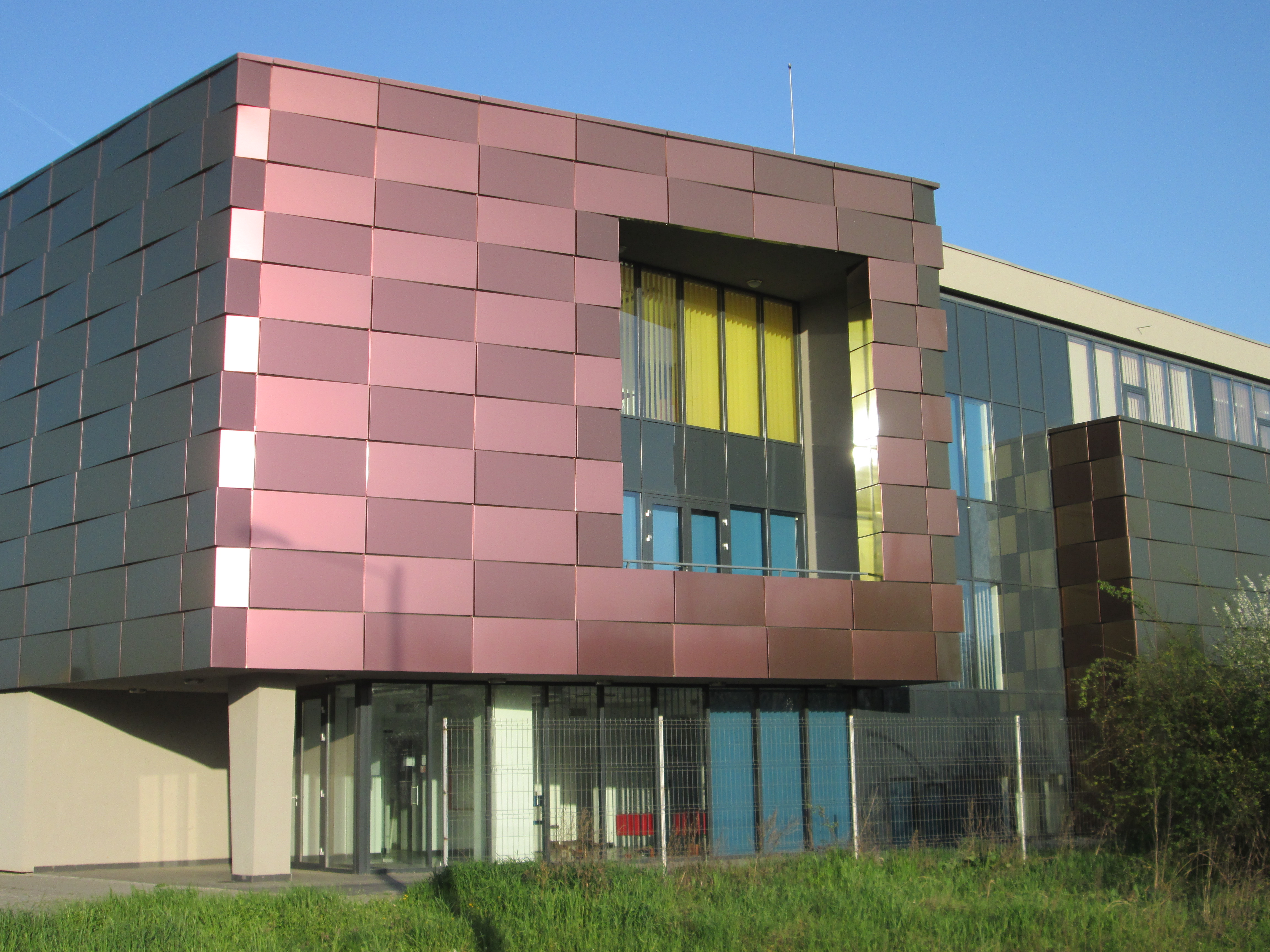 Renewable Energies - Photovoltaic Laboratory from Timisoara (Romania) in 2018